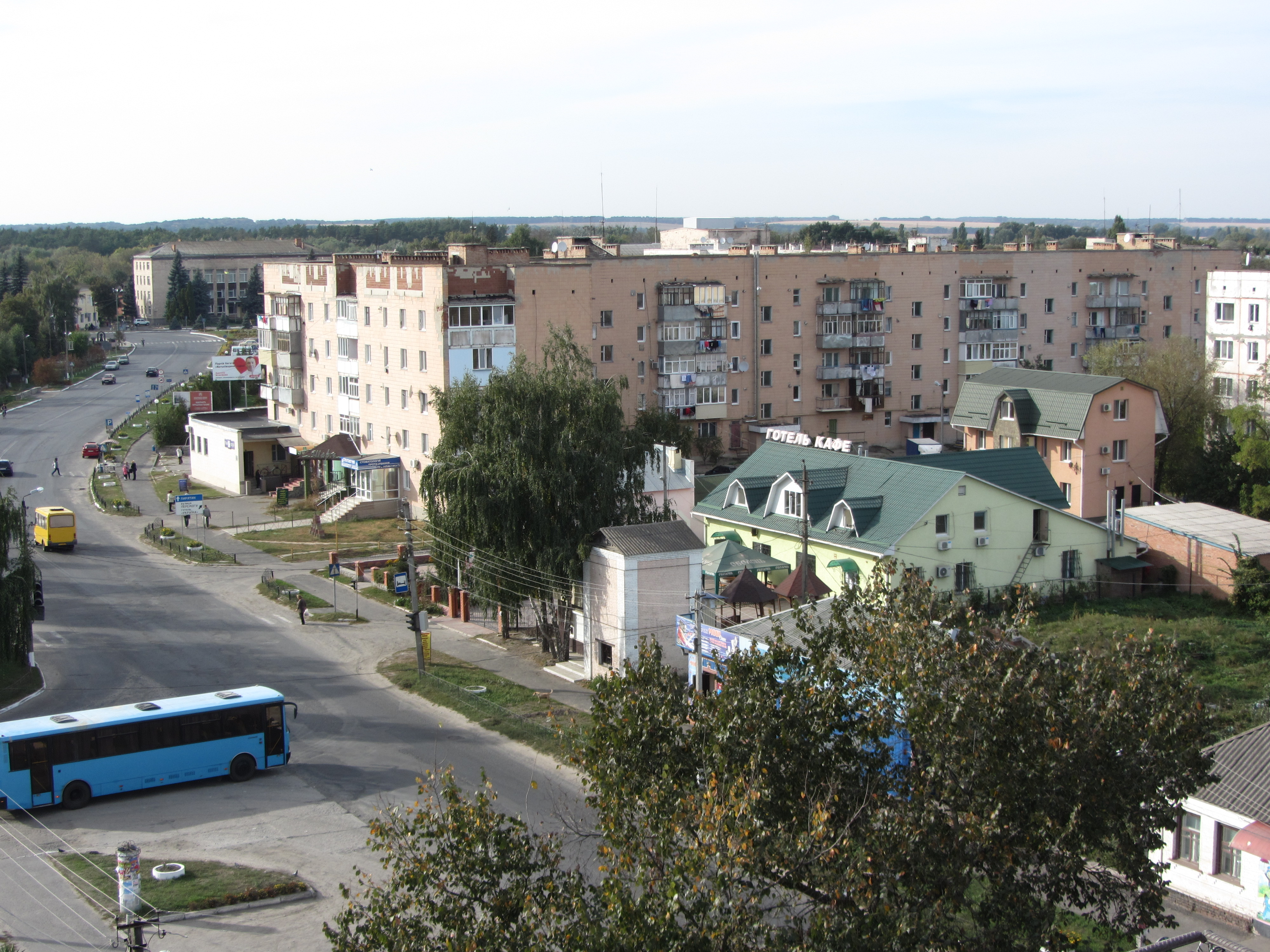 м. Лохвиця. Вул. Леніна (Роменська). Район "старої автостанції".